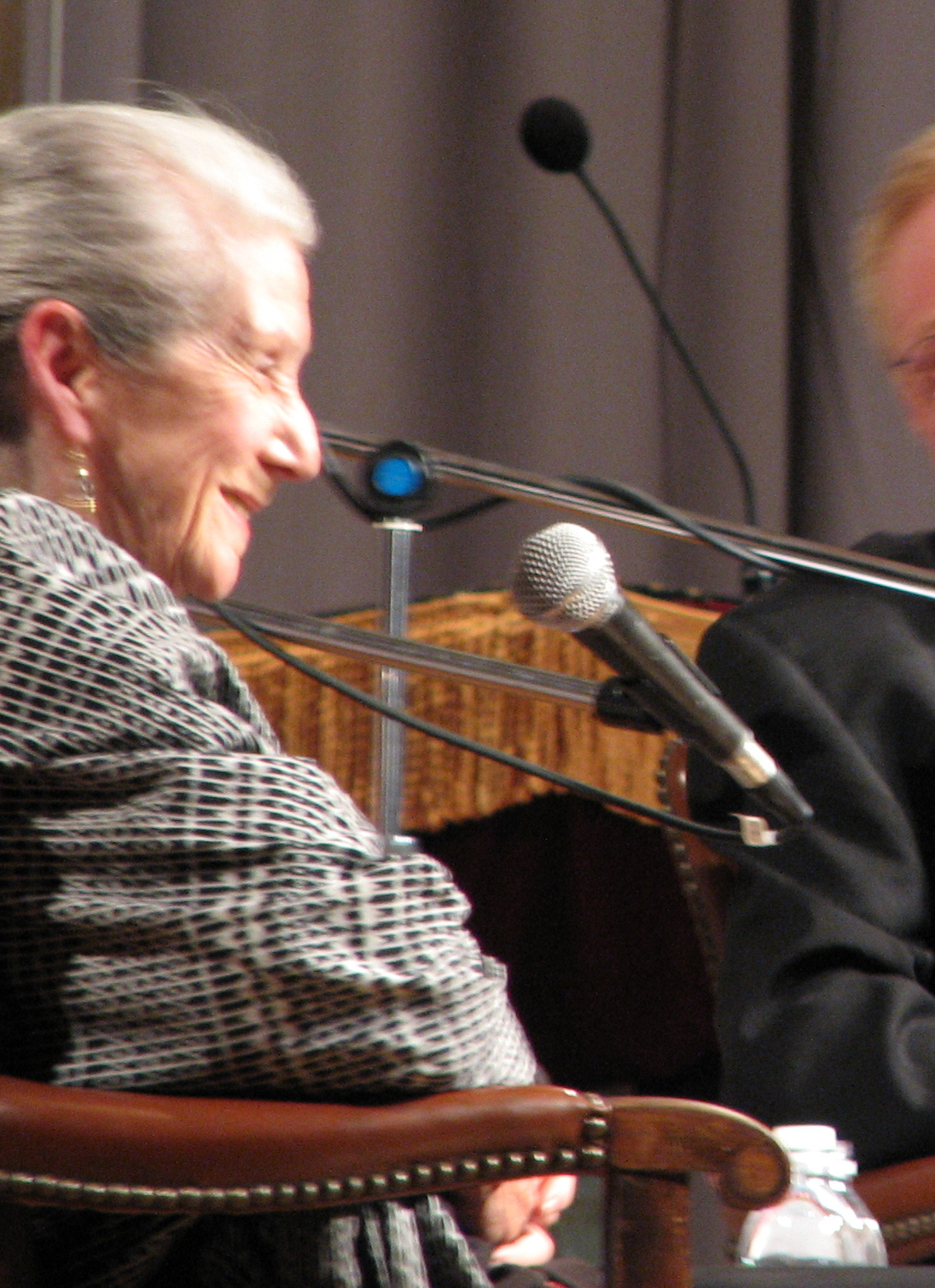 David Grossman with Nadine Gordimer